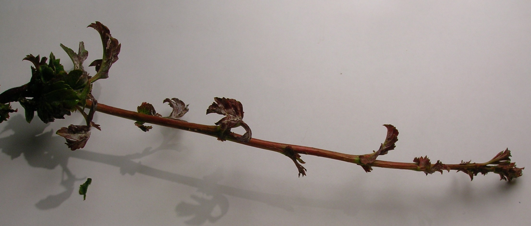 A hawthorn button-top gall with a normal shoot growing. Spier's, Beith, Ayrshire, Scotland.